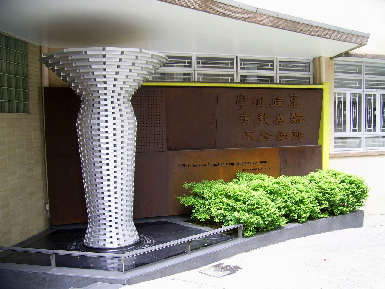 Vase-Champion (St. Louis School)